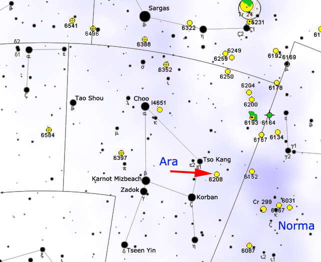 Map of NGC 6208